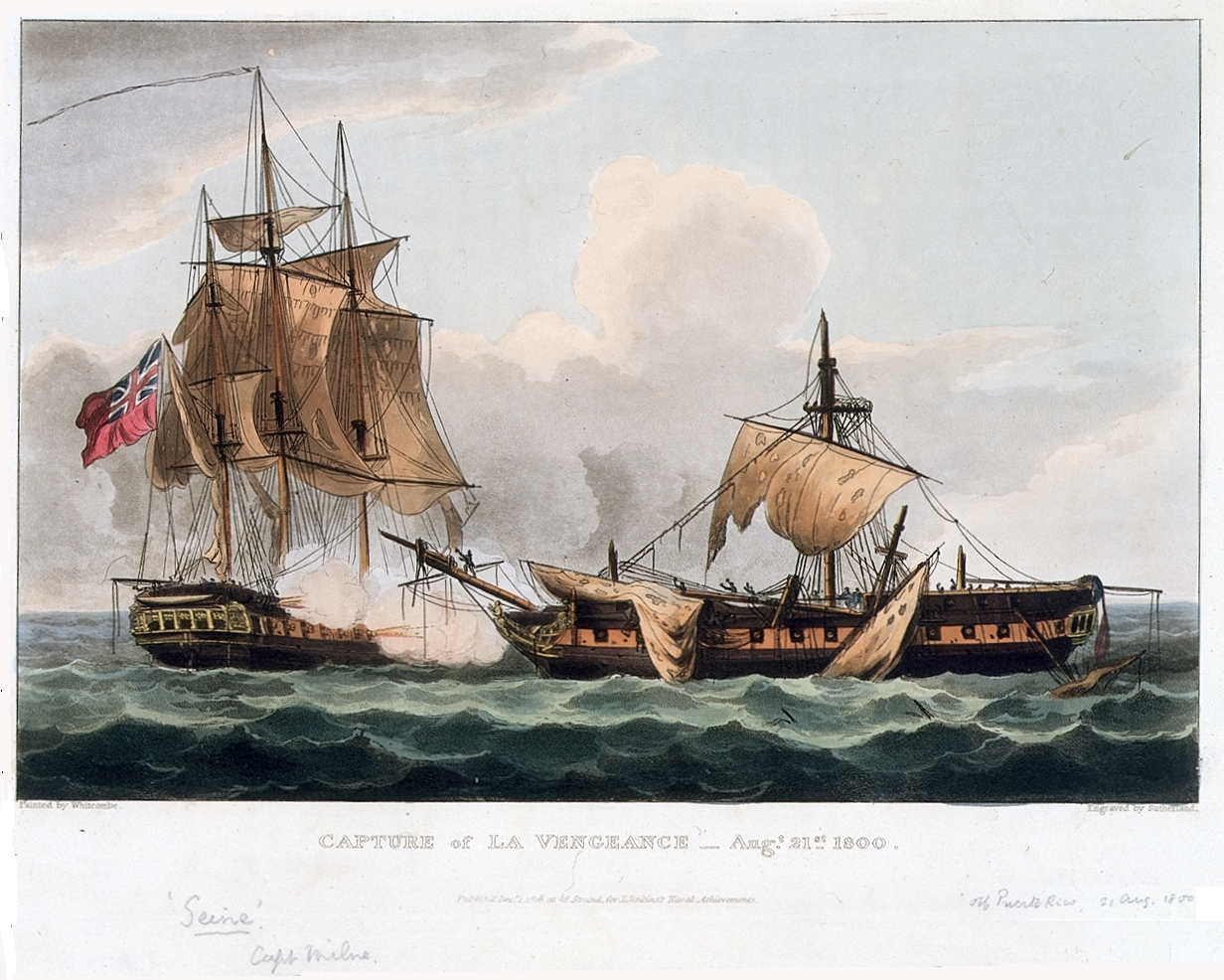 Aquatint, coloured print by Thomas Whitcombe depicting the capture of the French frigate Vengeance by HMS Seine